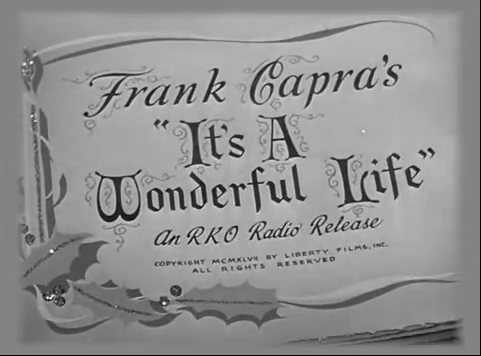 Title card of the American film It's a Wonderful Life (1946), starring Jimmy Stewart and Donna Reed. The film lapsed into the public domain in the United States due to the failure of National Telefilm Associates, the last copyright owner, to renew. See the film's Wikipedia article for details.